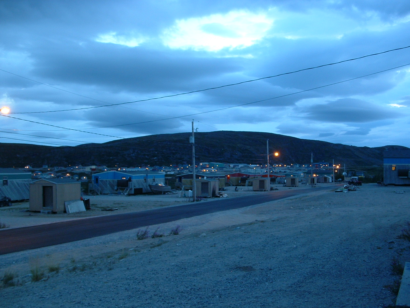 Kangiqsualujjuaq